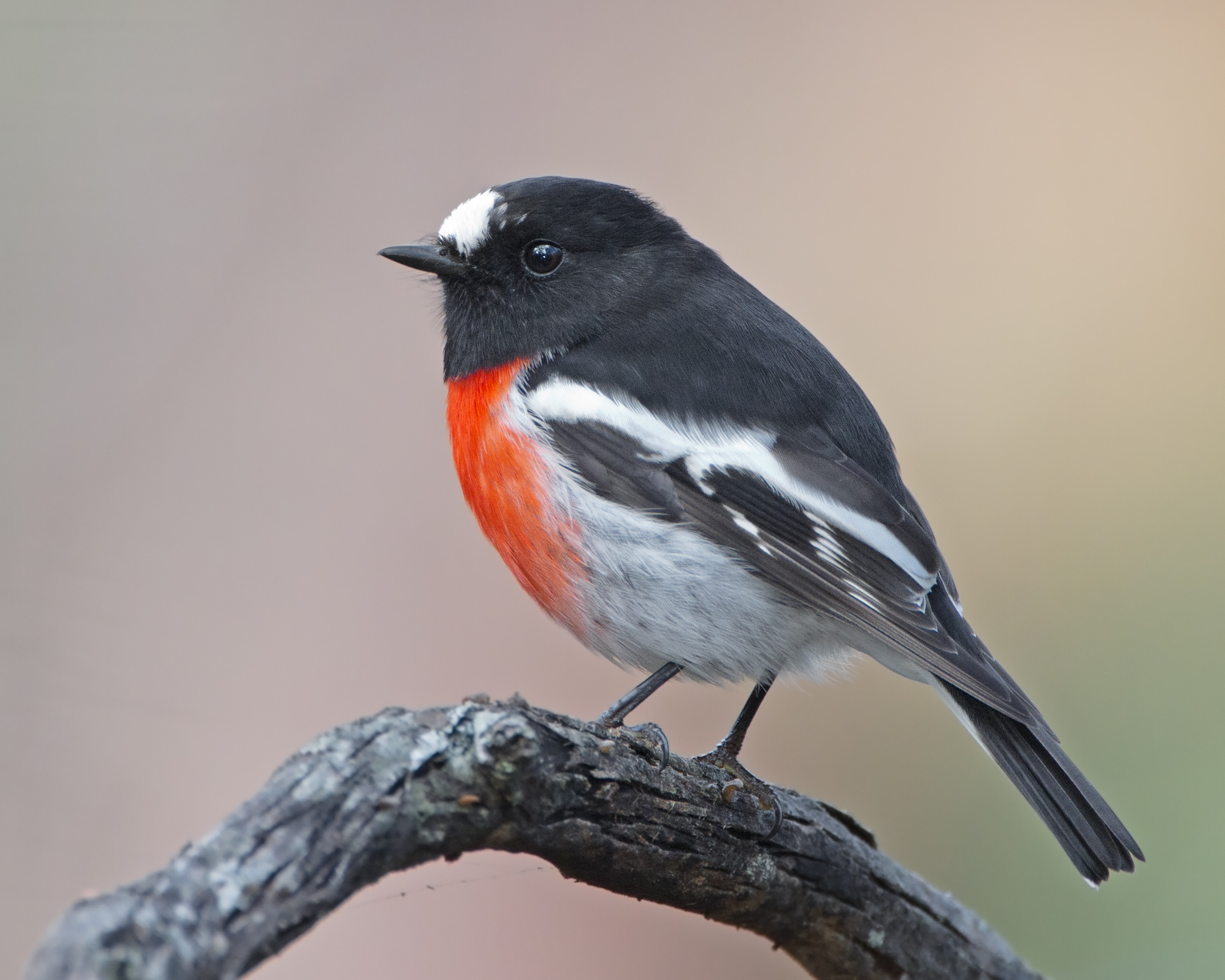 Scarlet Robin (Petroica boodang) male, Knocklofty Reserve, Hobart, Tasmania